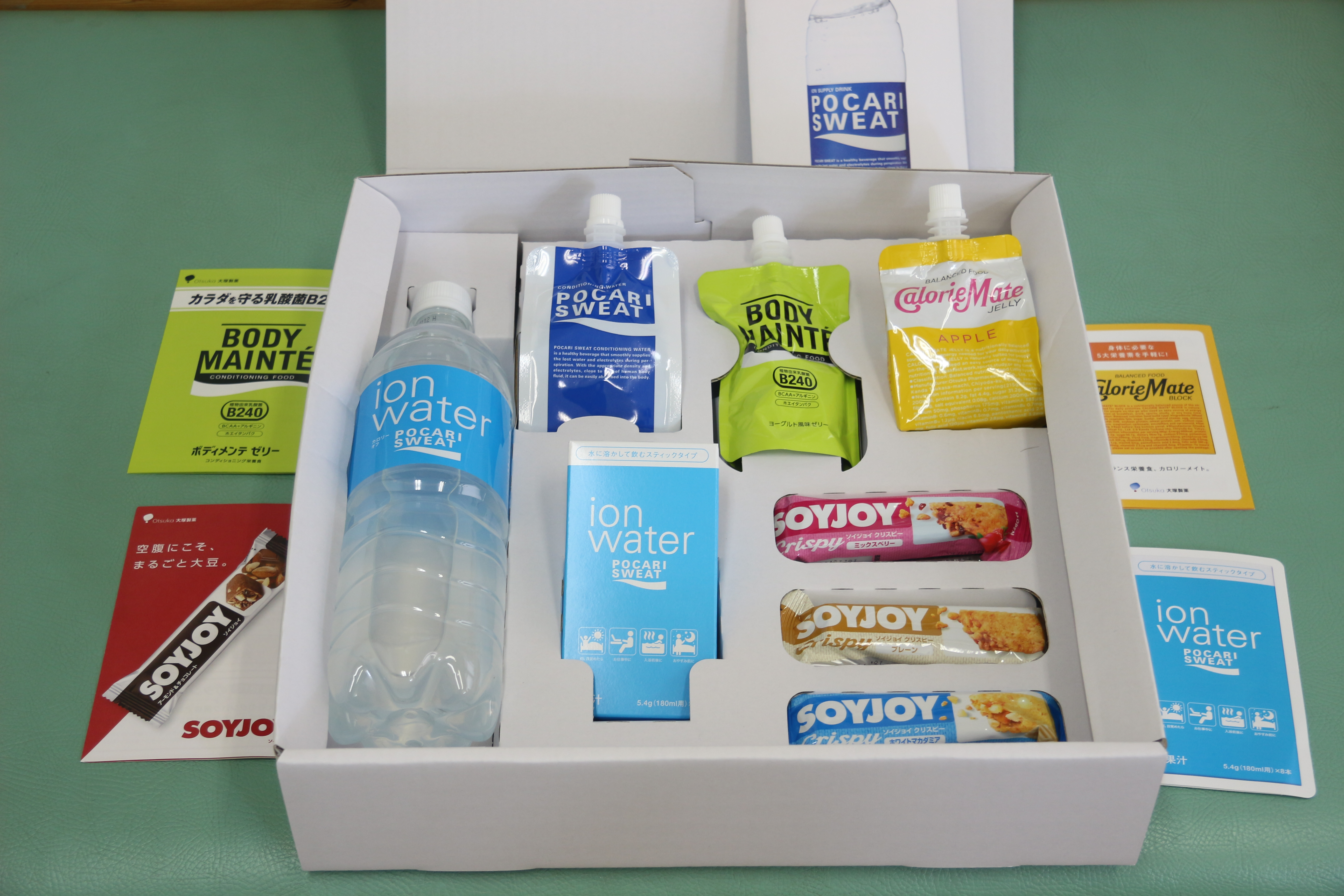 Main products of Otsuka Pharmaceutical. health management department, general use